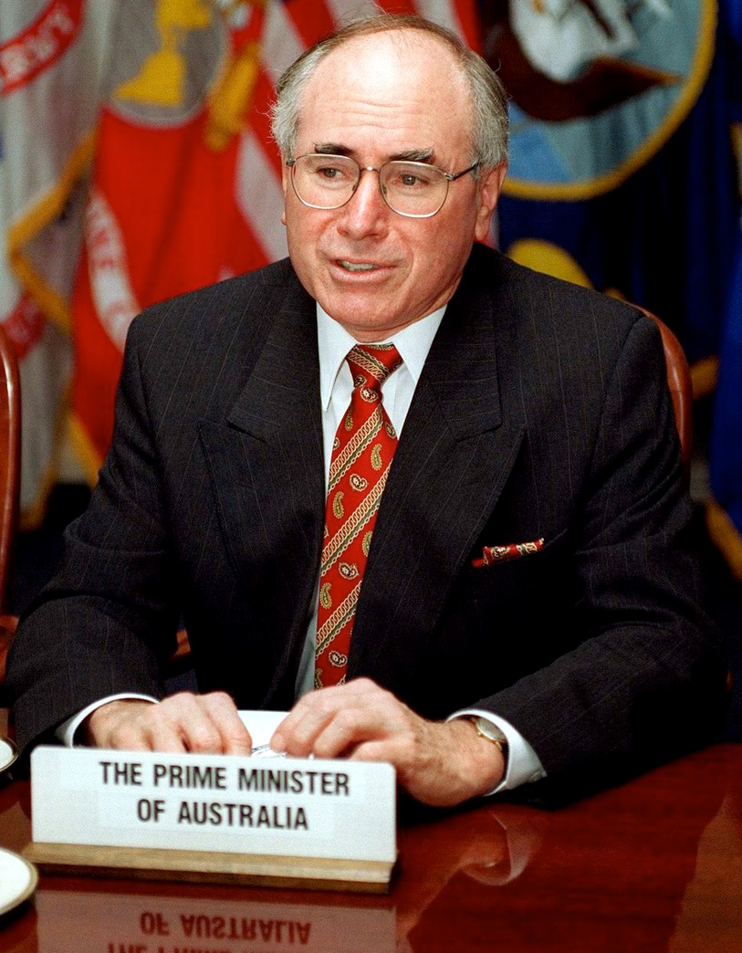 The Prime Minister of Australia, the Honourable John Howard meets with United States Secretary of Defense William S. Cohen at the Pentagon on June 27, 1997. DoD photo by Helene C. Stikkel.